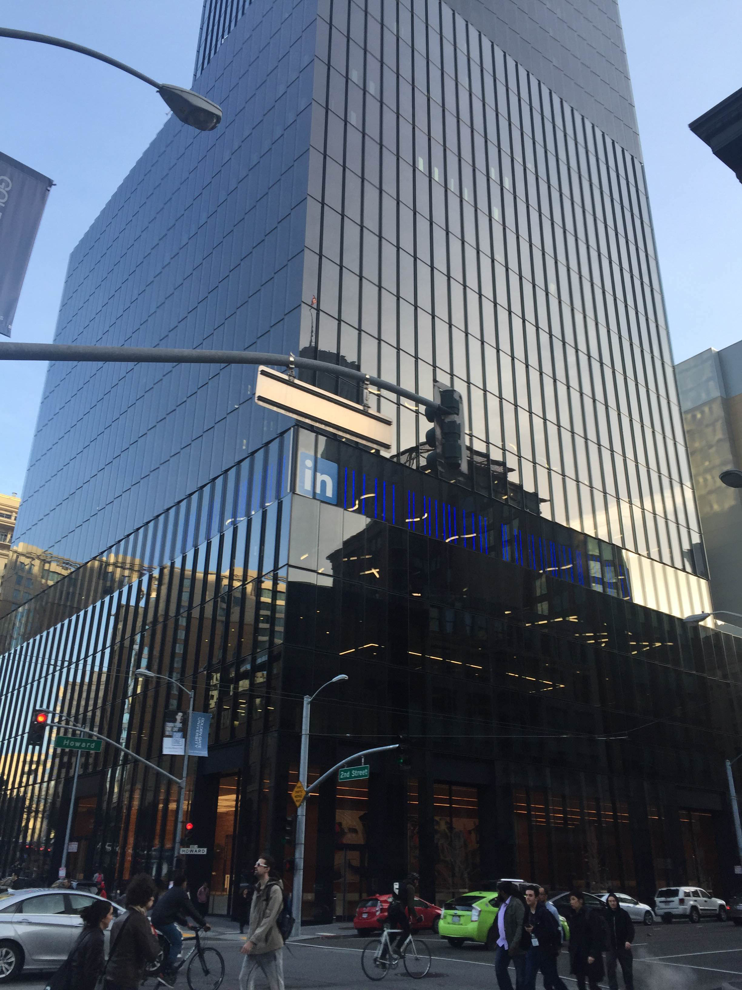 222 Second Street - LinkedIn Offices